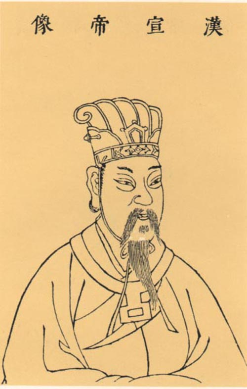 the image of Han Xuan Di